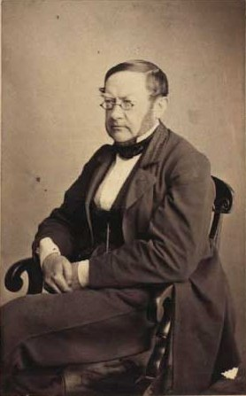 Self-portrait of Georg Rosenkilde (1814-1891)